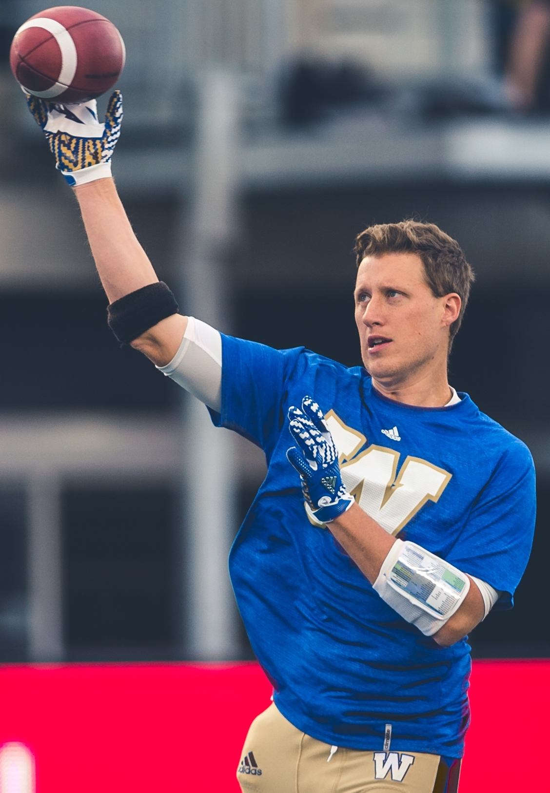 Drew Willy (5) of the Winnipeg Blue Bombers during the pre-season game at TD Place in Ottawa, ON on Monday June 13, 2016. (Photo: Johany Jutras)